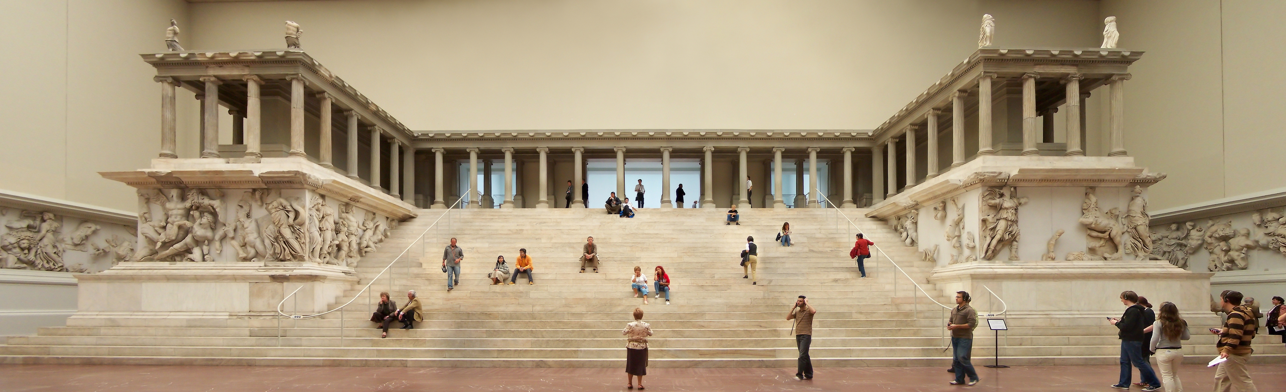 Altar to Zeus in the Pergamonmuseum, Berlin.